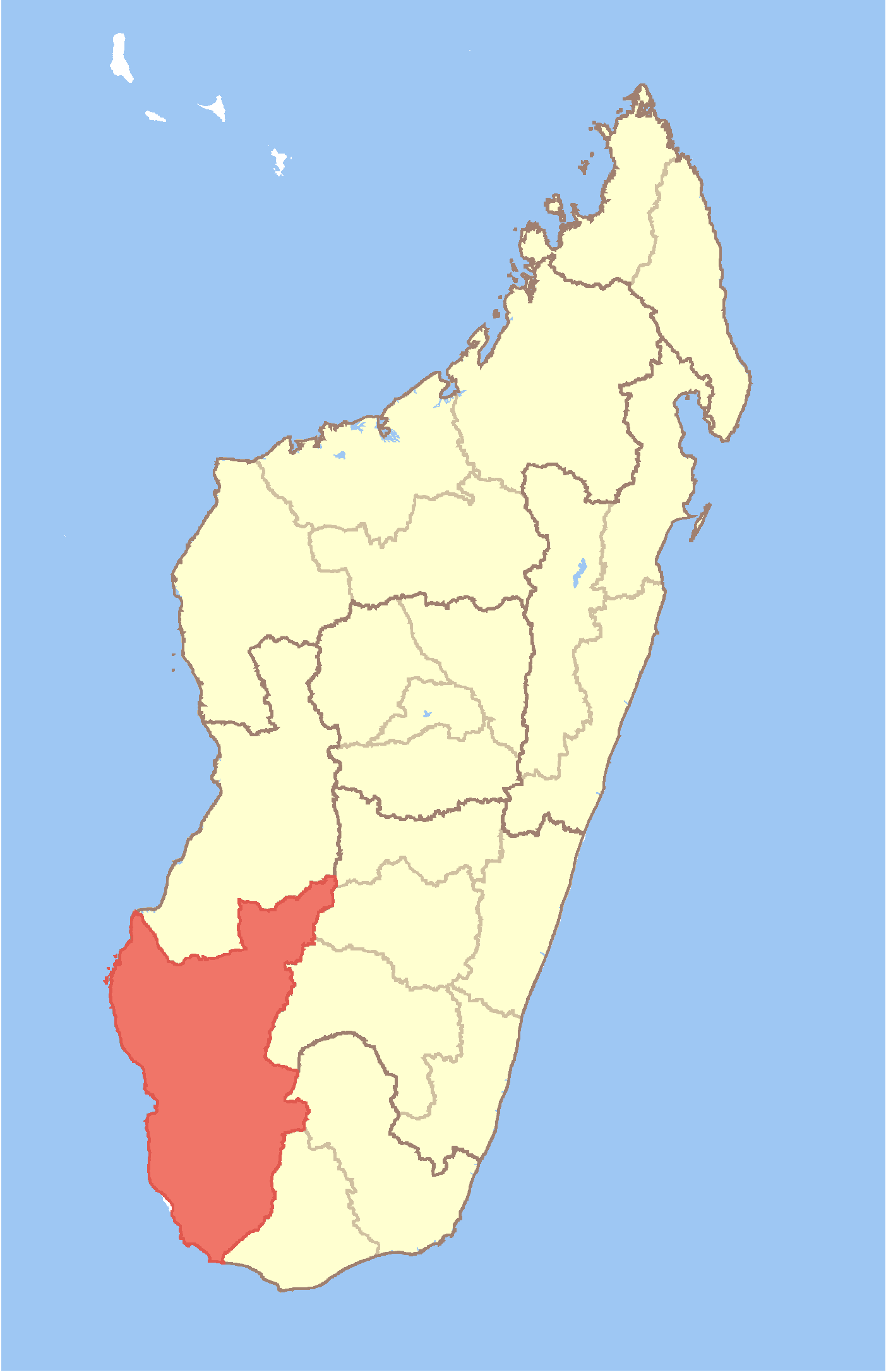 Map of Madagascar with Atsimo-Andrefana Region highlighted